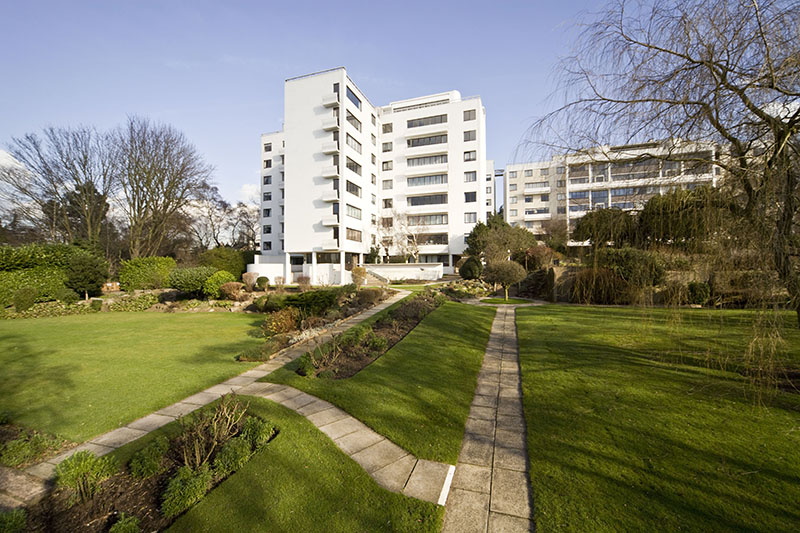 View of Berthold Lubetkin's Highpoint I from the gardens